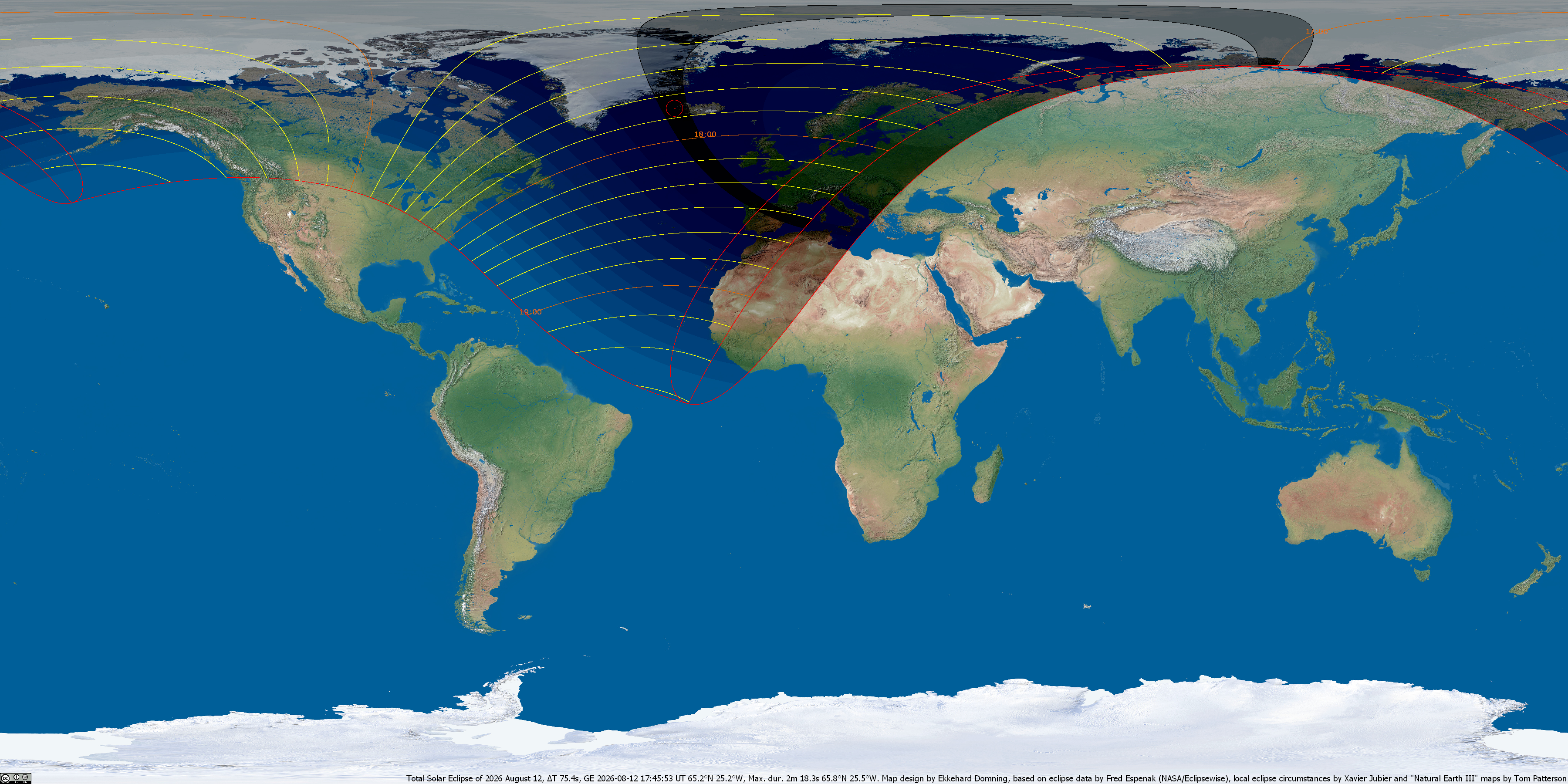 Global map of the Solar eclipse of August 12, 2026. Scale 1° = 10px